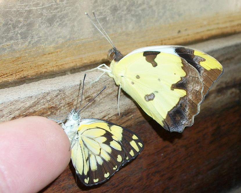 African Common White (left) and Vine-leaf Vagrant (right) raised on on Capparis fascicularis var. zeyheri from Amanzimtoti, South Africa.